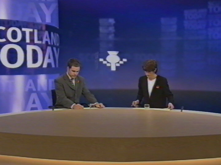 Still frame from animated virtual set for Scottish Television produced by Liquid Image.